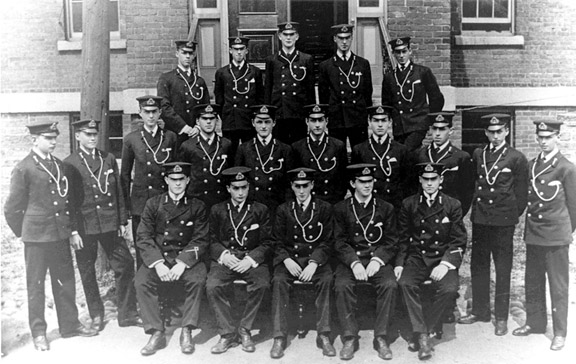 Photograph of the Midshipman class at Royal Naval College, Halifax Nova Scotia. Includes Leonard Murray (second from left).